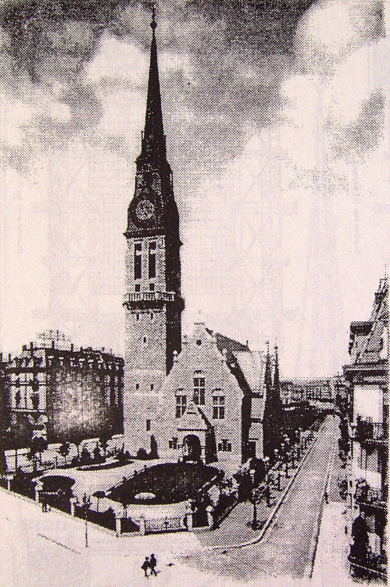 The protestant church St. Jakob in Zürich-Aussersihl built 1901, designed by the Berlin architects Johannes Vollmer and Heinrich Jassoy